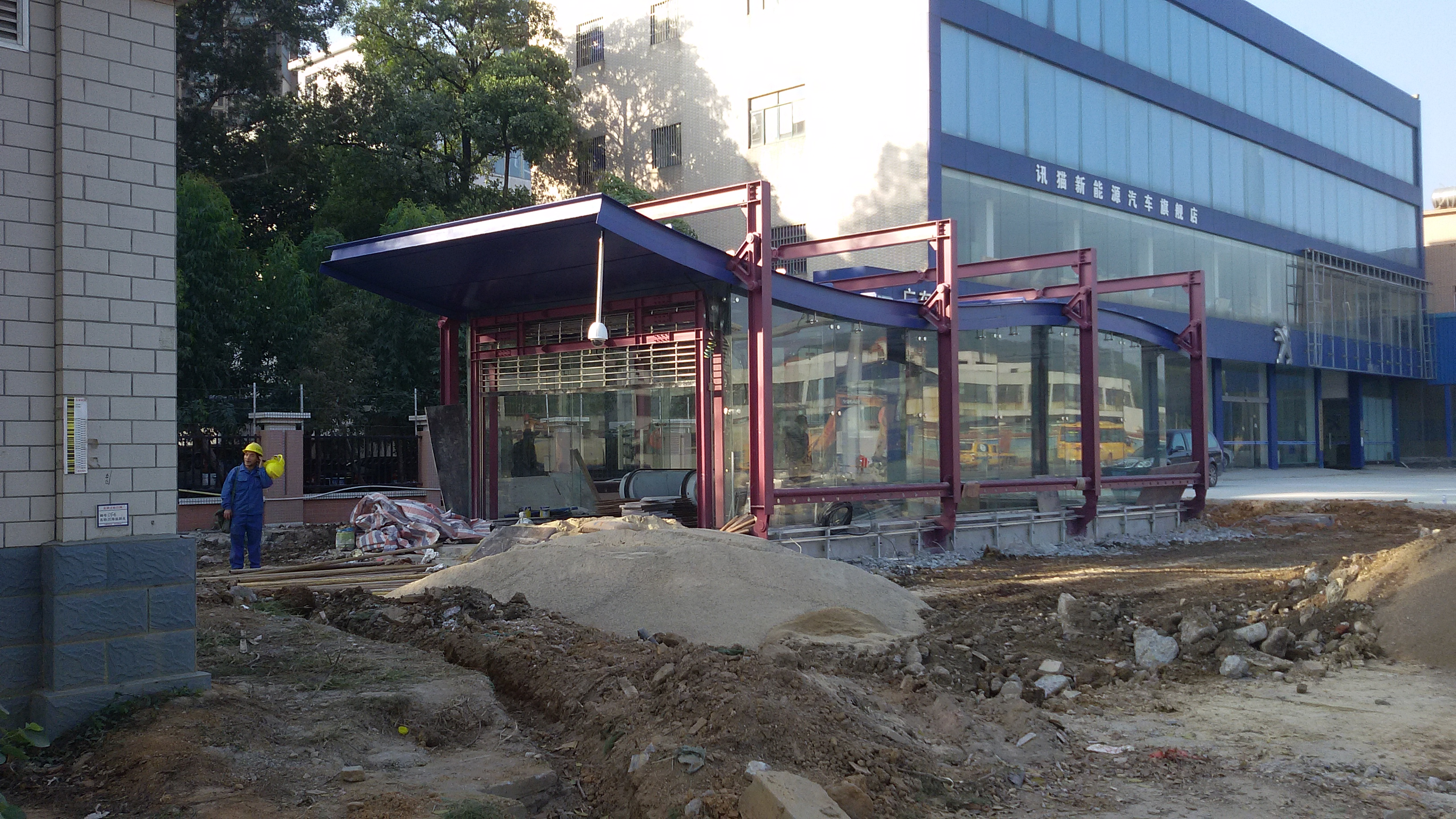 Exit B for Huangbei Station in Guangzhou Metro (December 15th., 2016).